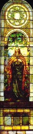 Tiffany Window in First Presbyterian Church, Springfield, Illinois U.S.A.